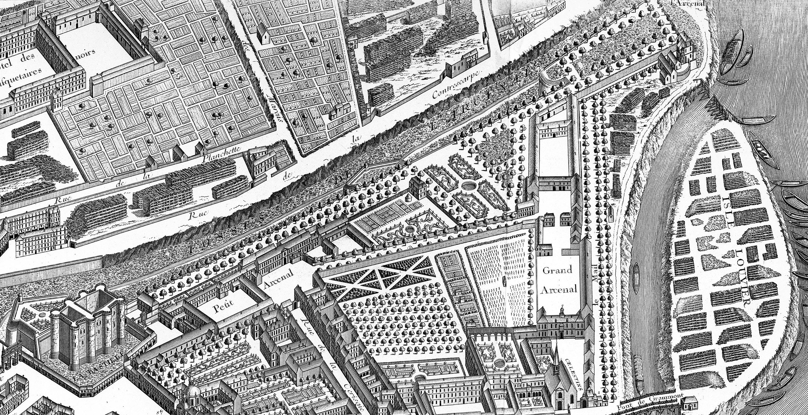 Plan de Turgot (died 1751), Detail Port de l'Arsenal